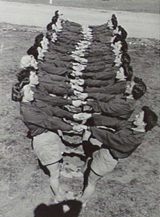 AWM Caption: DARLEY, VIC. 1944-09-06. TRAINEE PHYSICAL TRAINING INSTRUCTORS DRAWN FROM THE AUSTRALIAN WOMEN'S ARMY SERVICE AND THE AUSTRALIAN ARMY MEDICAL WOMEN'S SERVICE PRACTICE EXERCISES WHILE ON COURSE AT THE AUSTRALIAN ARMY PHYSICAL TRAINING SCHOOL.